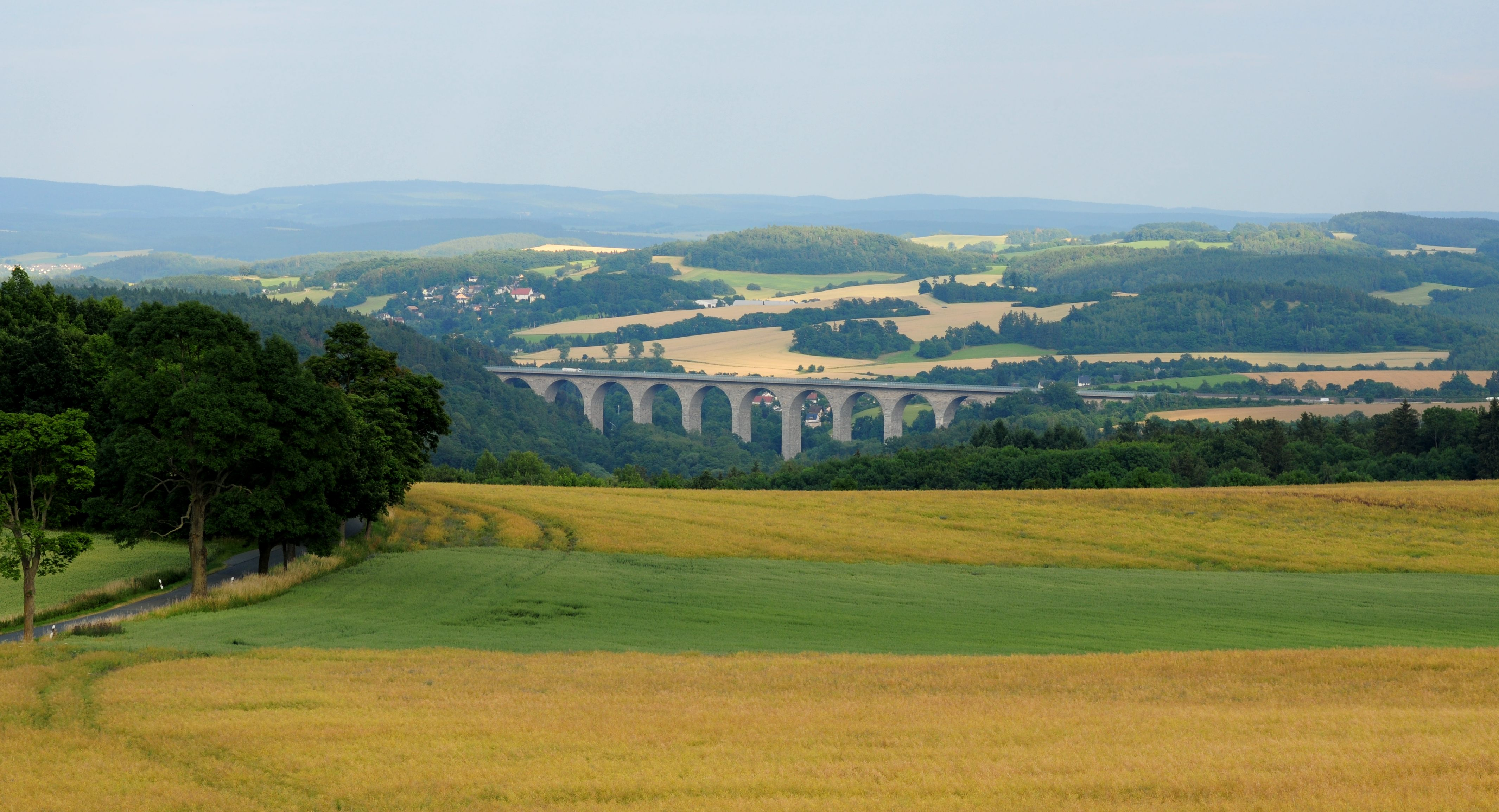 Motorway bridge of Pirk (district Vogtlandkreis, Free State of Saxony, Germany)